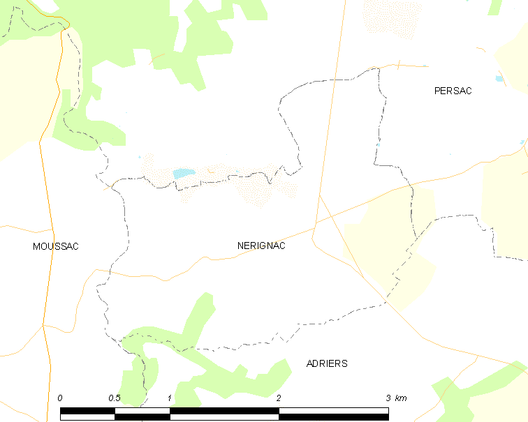 Map of French municipality Nérignac